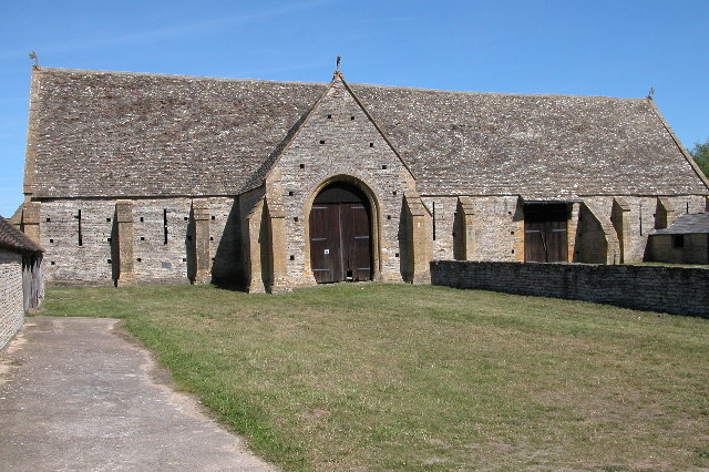 Tithe barn, Middle Littleton, Worcestershire. The barn was built early in the 14th century for Evesham Abbey. It is one of the biggest tithe barns in the country and is now in the care of the National Trust